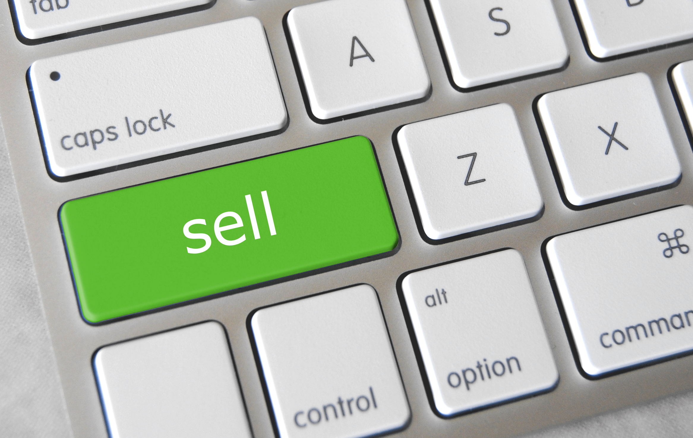 sell key